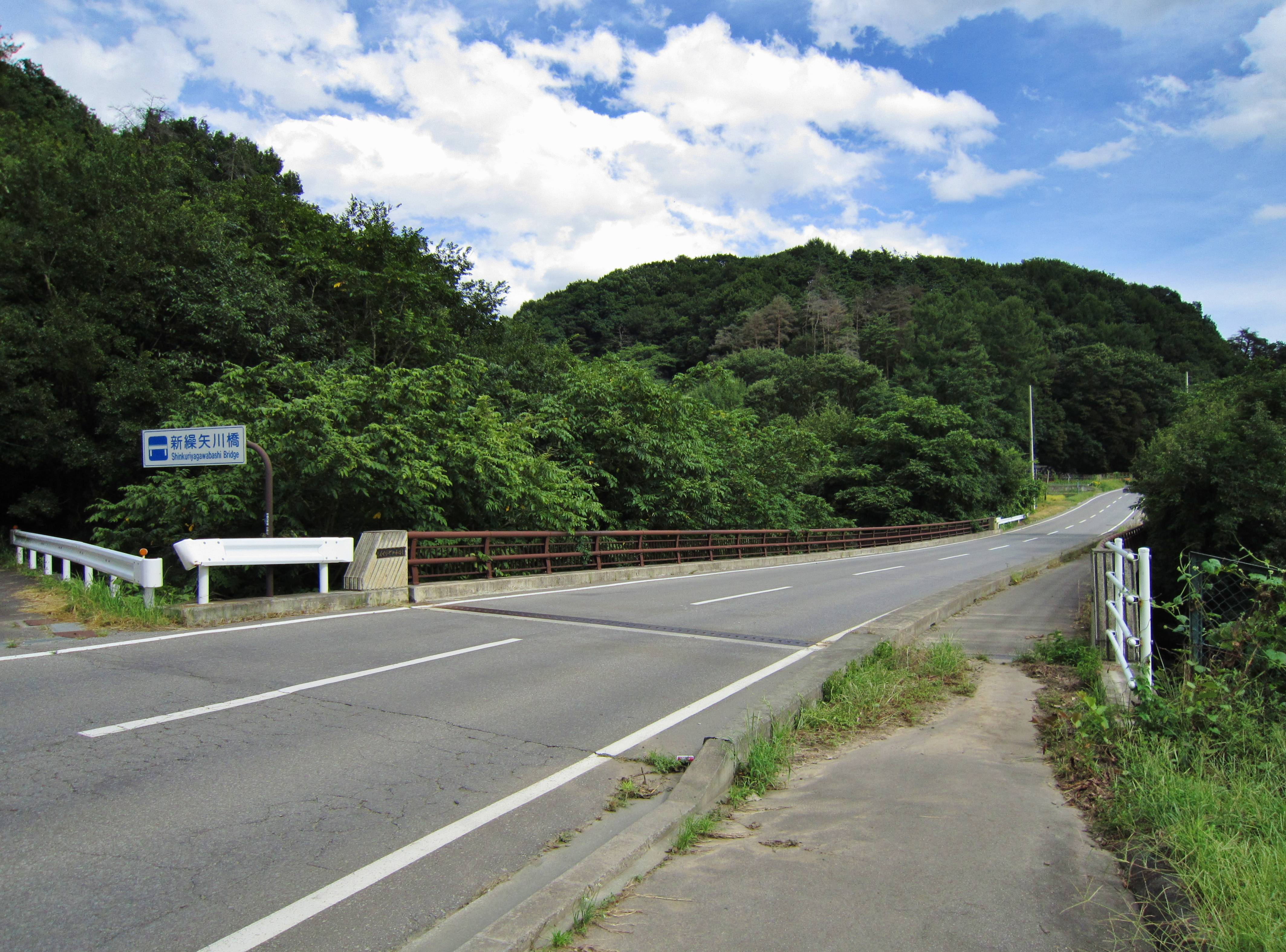 Shinkuriyagawabashi Bridge.